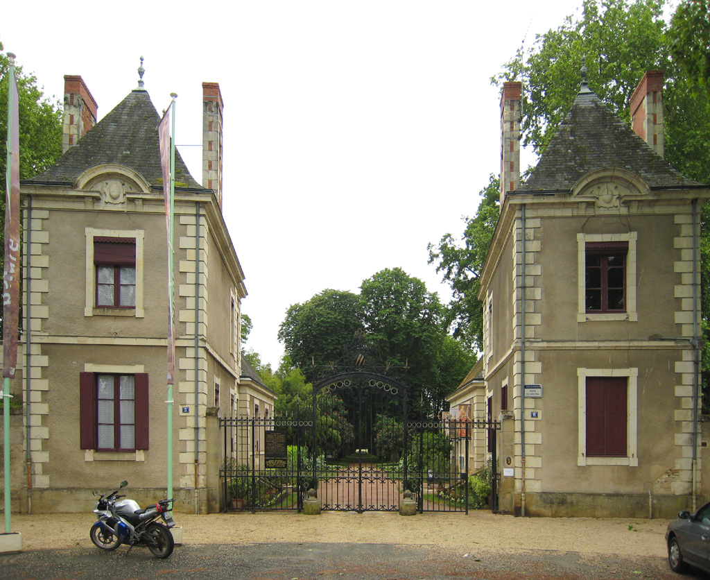 Entrance of the château park of Richelieu, France